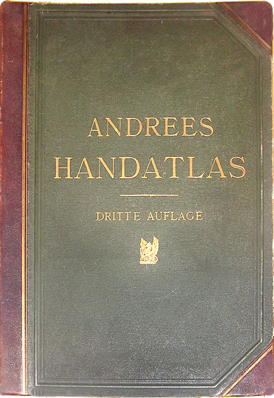 Cover of the Andrees Allgemeiner Handatlas, Dritte Auflage (3rd Edition), 1896 printing.